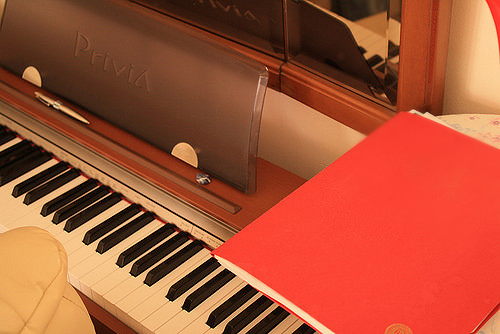 Example of musical keyboard on a digital piano.